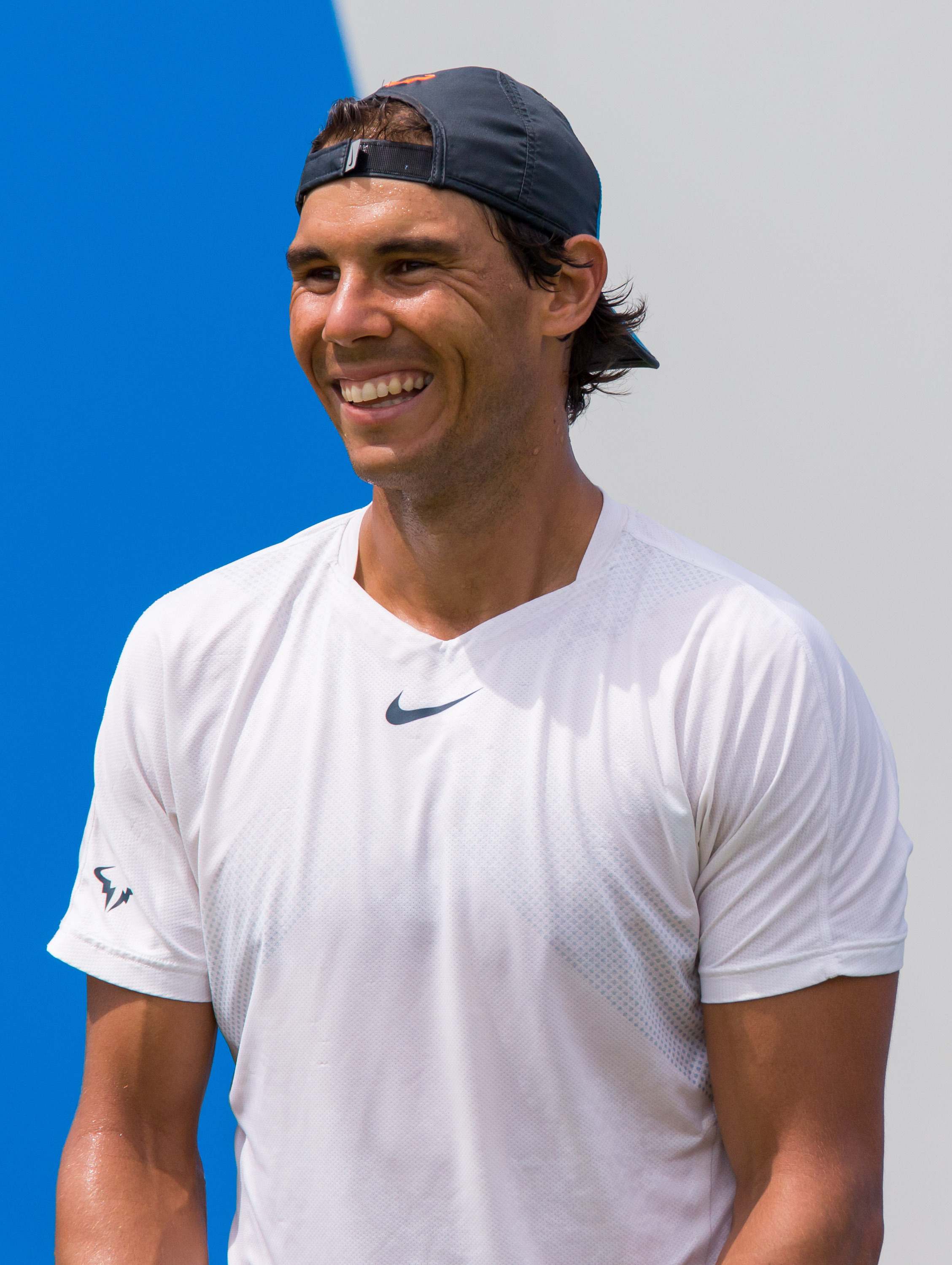 Rafael Nadal during practice at the Queens Club Aegon Championships in London, England.